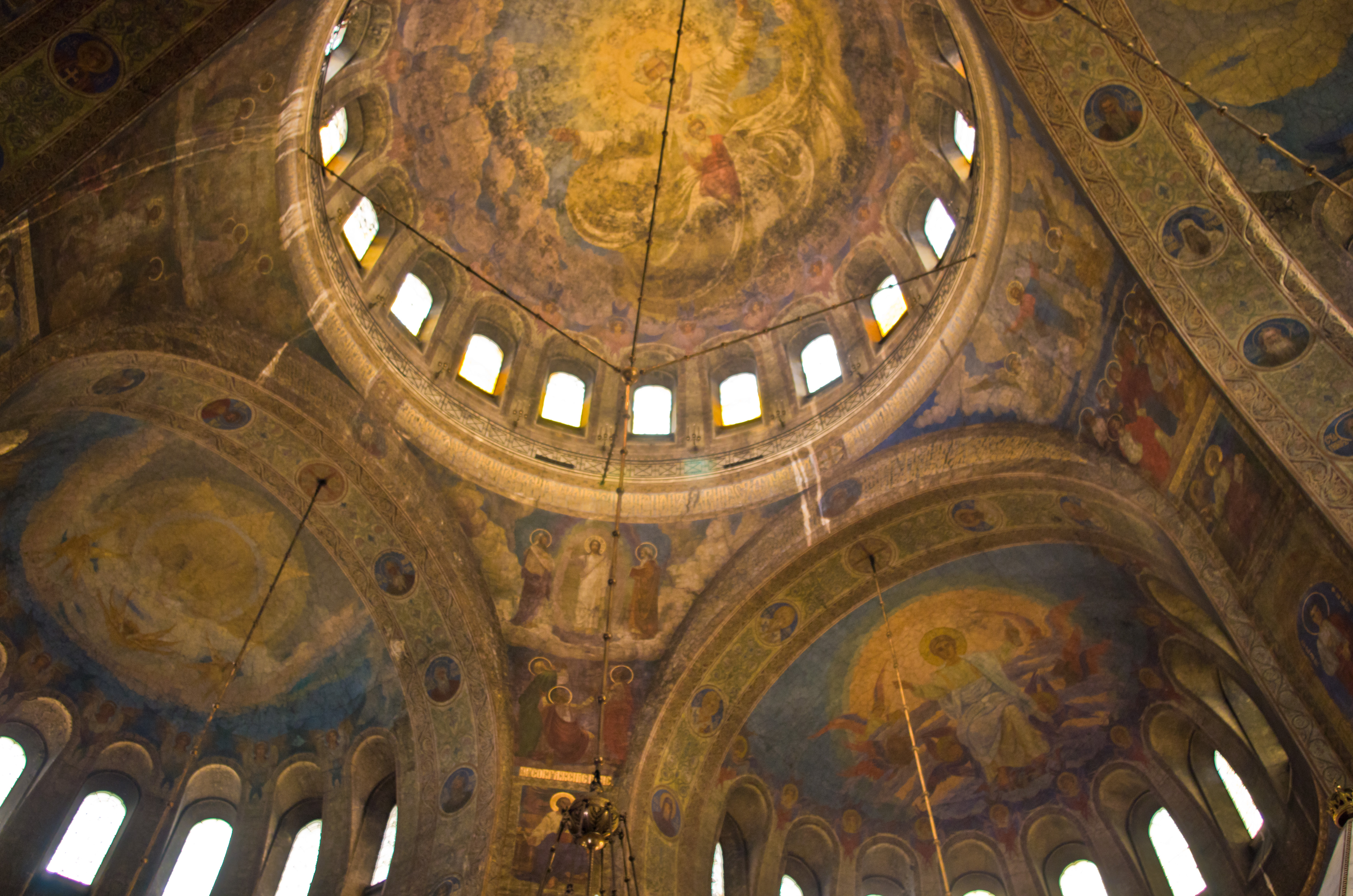 Inside the Alexander Nevsky Cathedral, Sofia